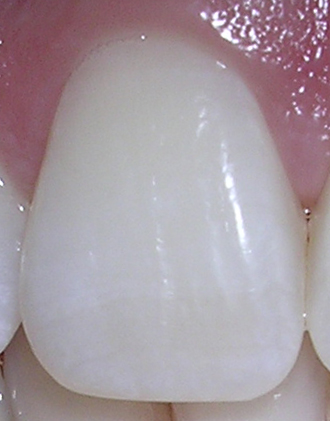 Photo of a permanent maxillary central incisor (#8 by the universal system of notation) taken from the facial view.